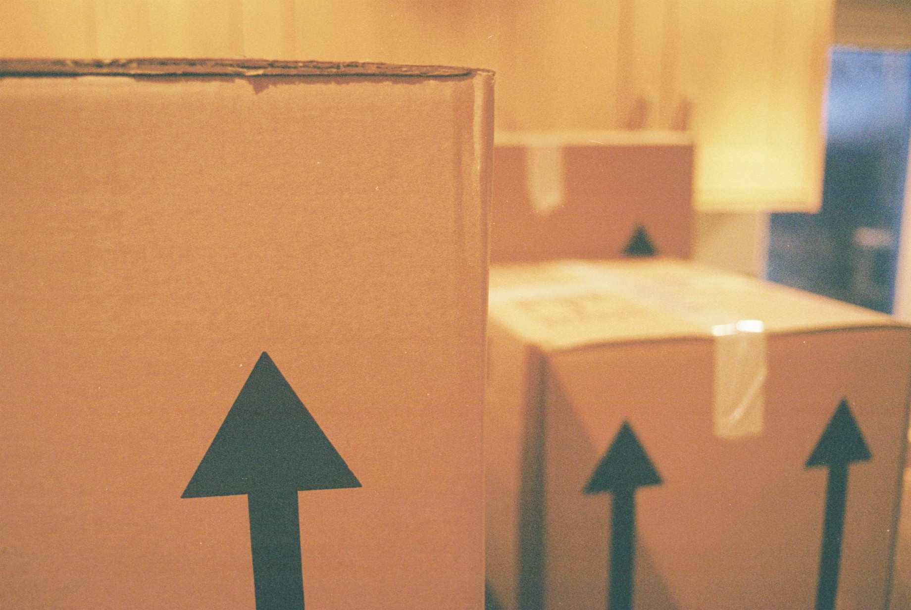 Canon Ae-1 Program 35mm